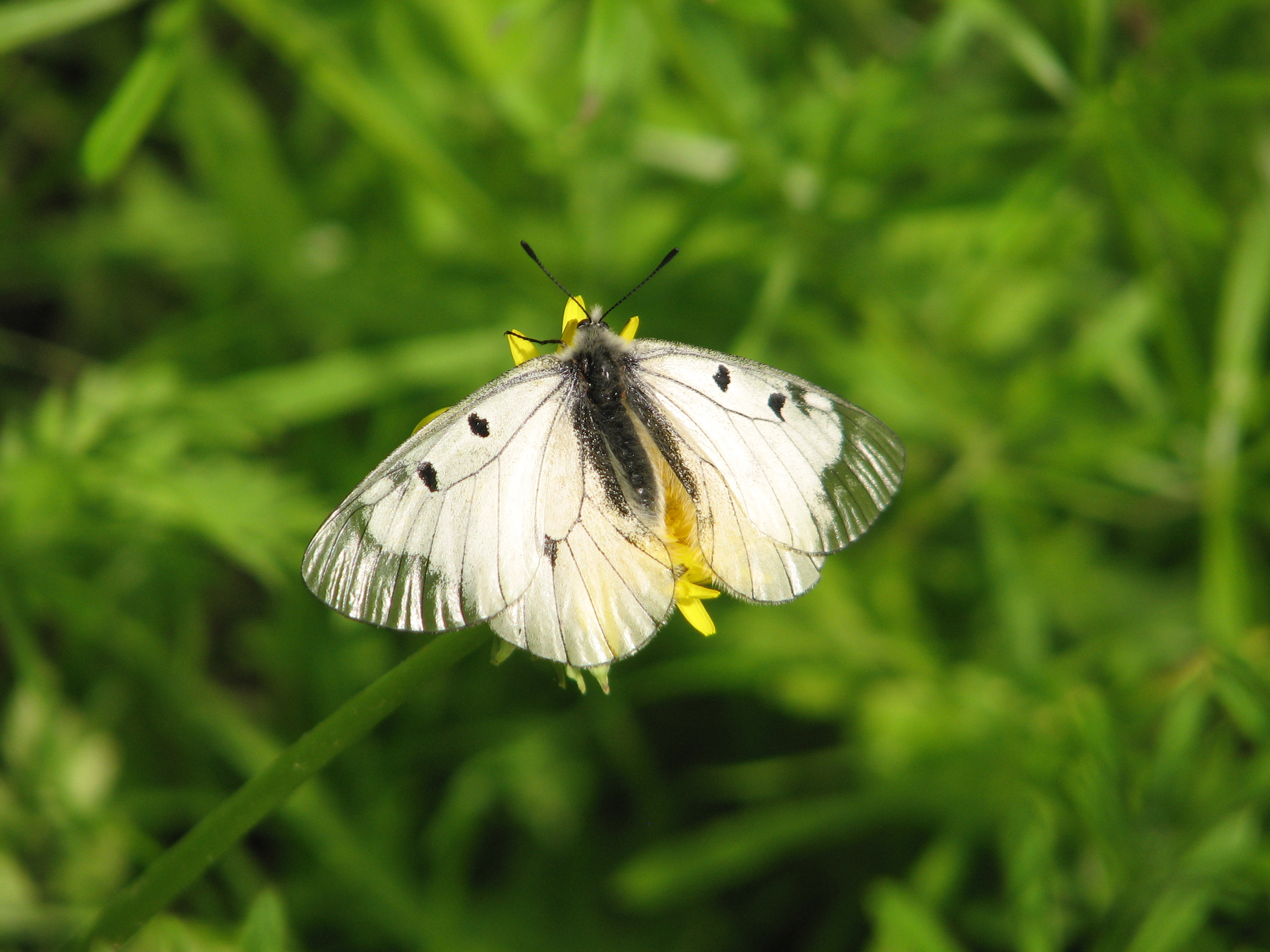 Parnassius mnemosyne